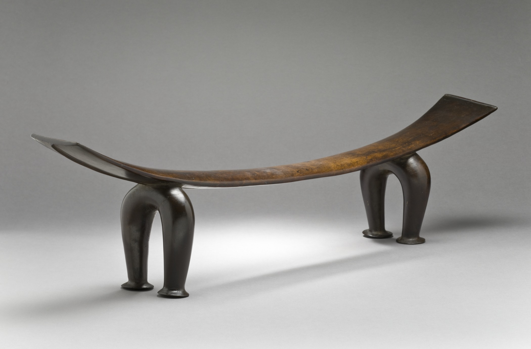 Tonga, circa 1850 Furnishings; Furniture Wood 7 x 29 x 4 1/2 in. (17.78 x 73.66 x 11.43 cm) Purchased with funds provided by the Eli and Edythe Broad Foundation with additional funding by Jane and Terry Semel, the David Bohnett Foundation, Camilla Chandler Frost, Gayle and Edward P. Roski and The Ahmanson Foundation (M.2008.66.15) Art of the Pacific Currently on public view: Ahmanson Building, floor 1